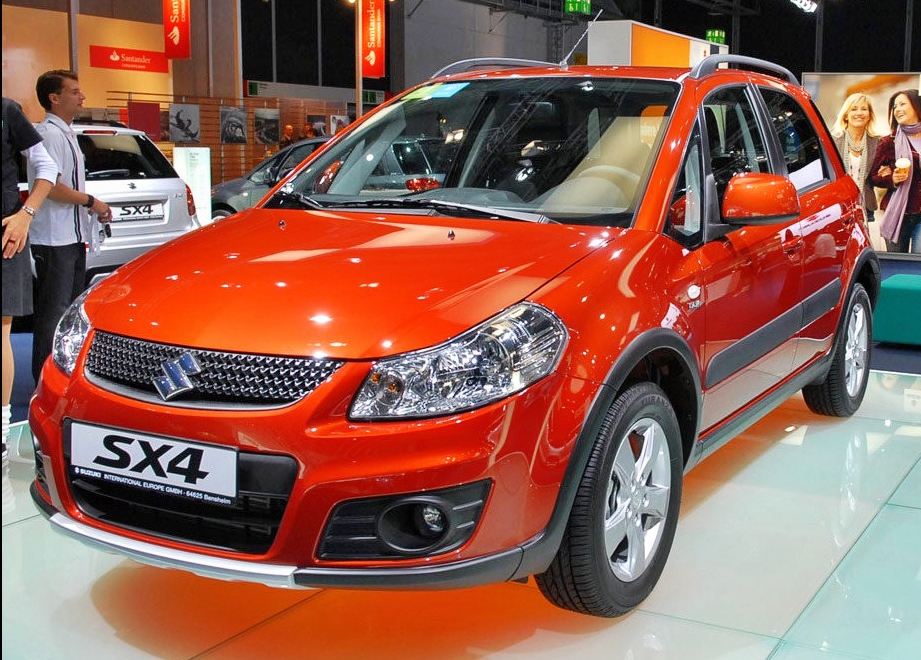 Suzuki SX4 restyling in Frankfurt motor show